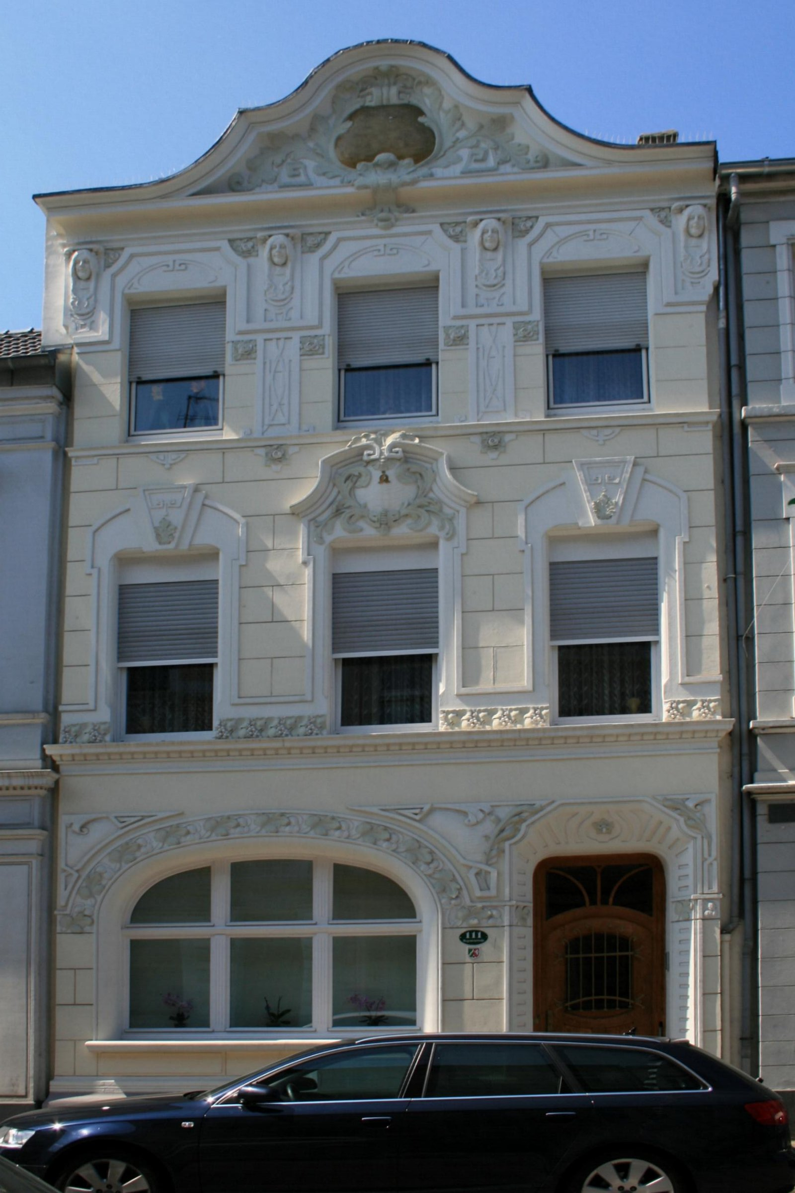 Cultural heritage monument No. R 056 in Mönchengladbach